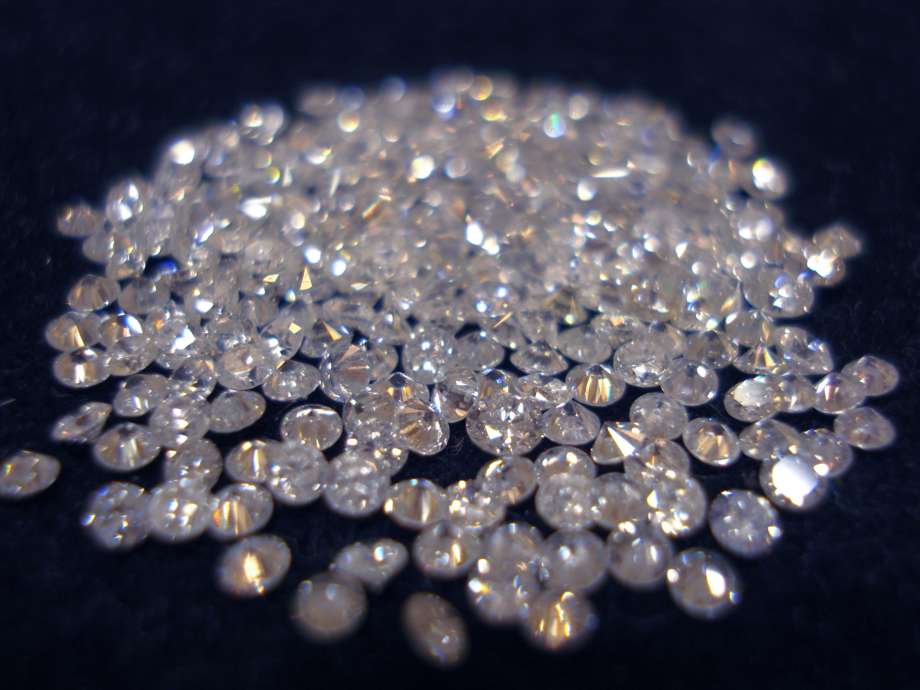 This is a collection of 0.02, 0.03 and 0.04 carat solitaire diamonds weighing in total 5.36 carats, costing just under $4,000.